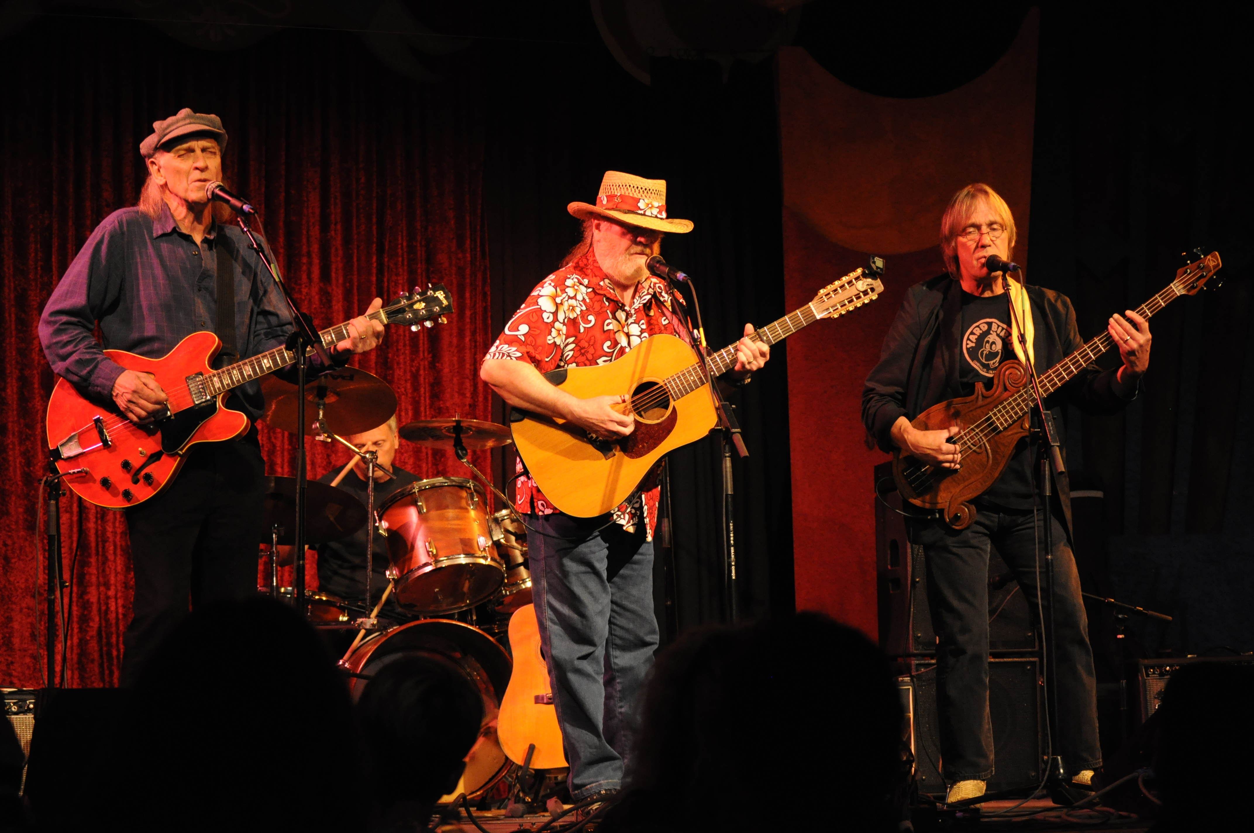 Revived version of The Daily Flash playing at a tribute to Ron Davies, Hale's Palladium, Seattle, Washington, USA. Left to right: Barry Curtis (an early and longstanding member of The Kingsmen), Steve Lalor, Don Wilhelm; behind, on drums, Steve Peterson (with the Kingsmen since 1988).